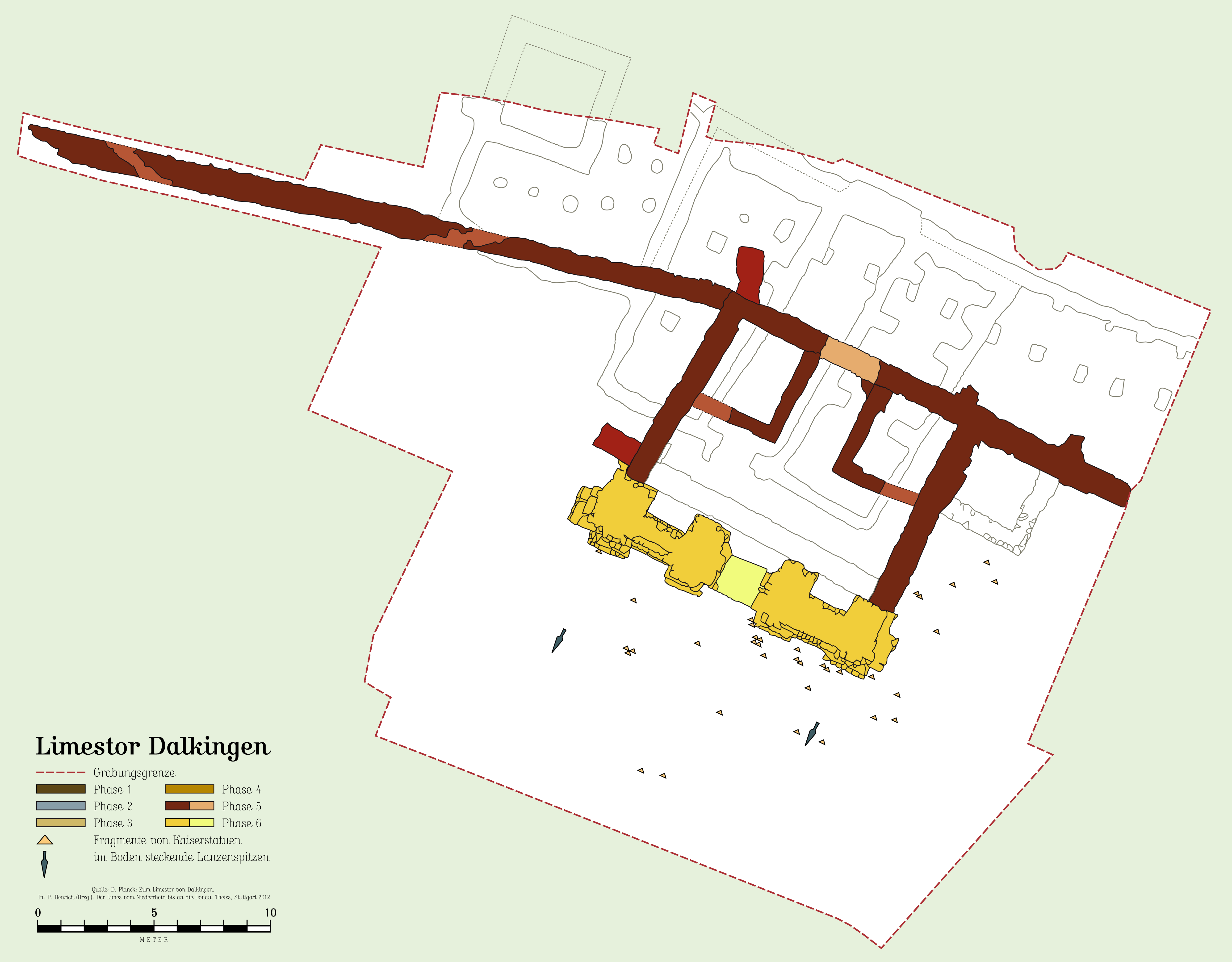 The Roman Limes gate of Dalkingen, Germany; 6st construction phase (of altogether six) after D. Planck. Created on Macintosh; saved in Wikipedia with Adobe Photoshop CS 3